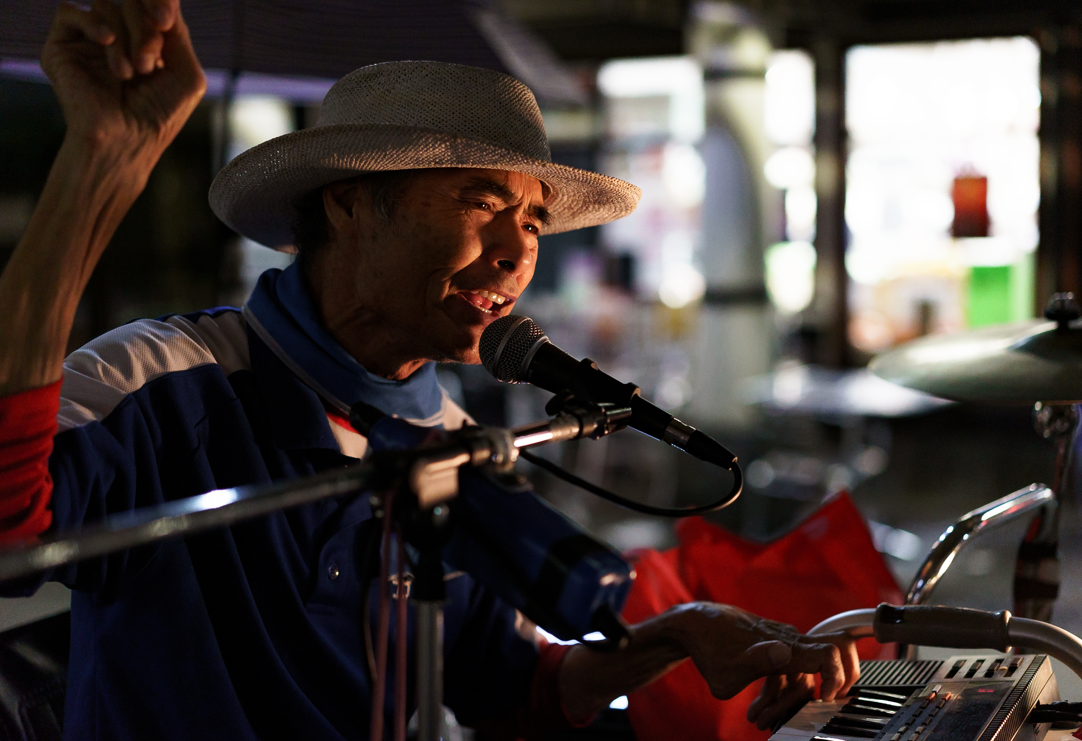 Arthur Nakane returns to Little Tokyo, LA, (c) WissahickonDog Photography